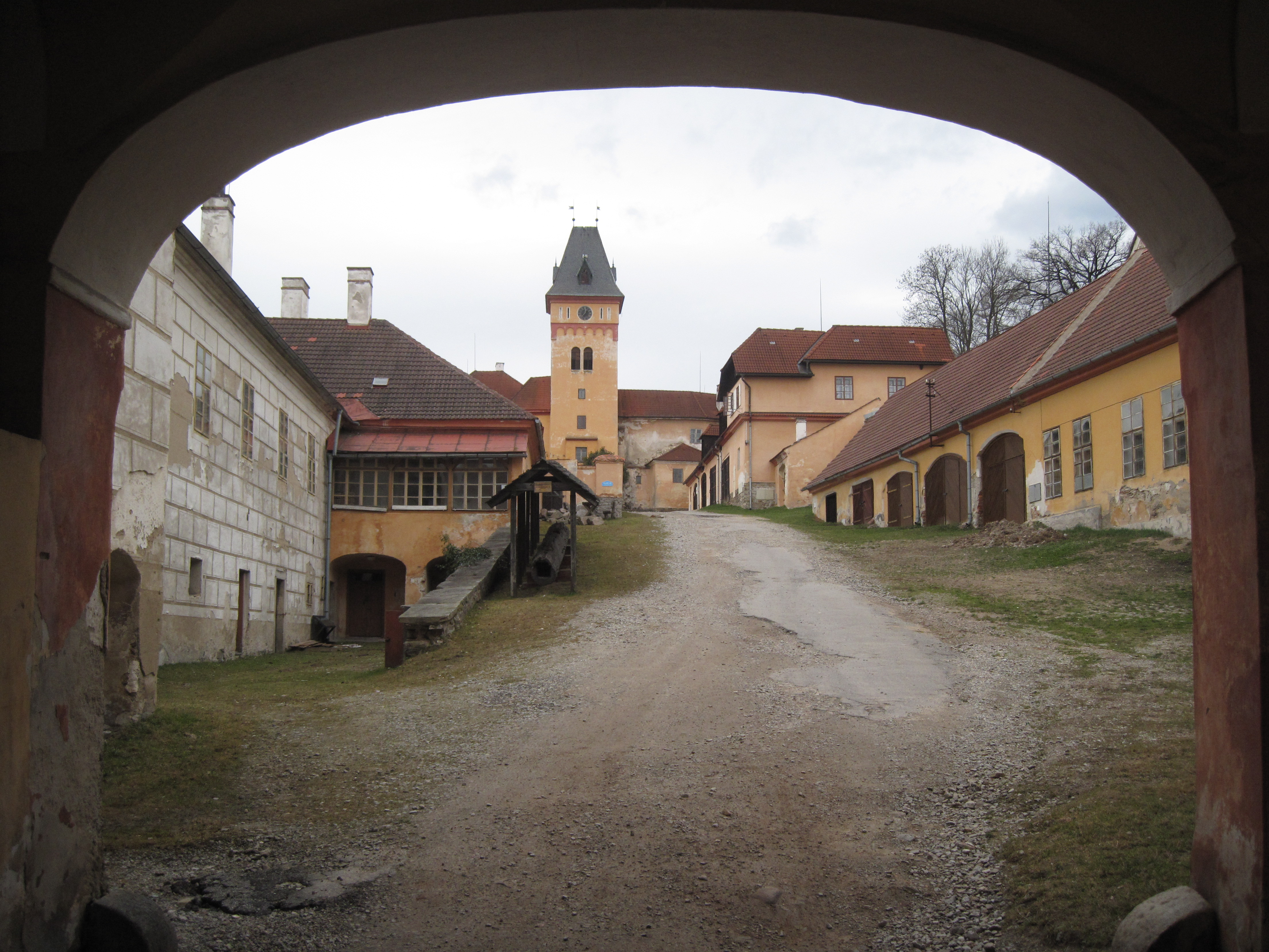 Castle Vimperk forecourt